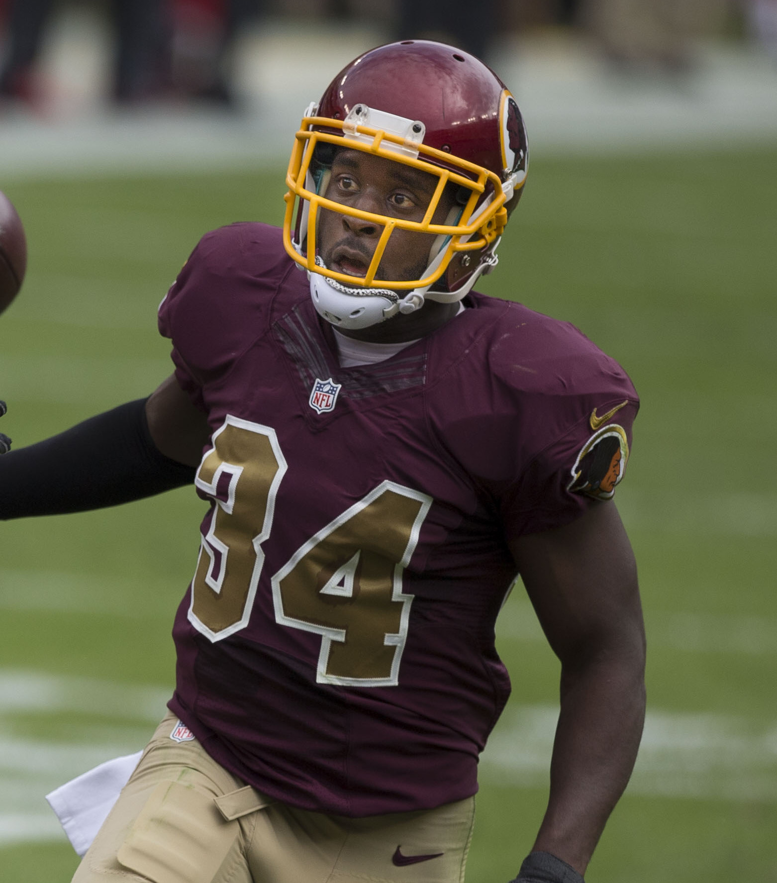 Washington Redskins safety, Trenton Robinson playing against the Tampa Bay Buccaneers on October 25, 2015.